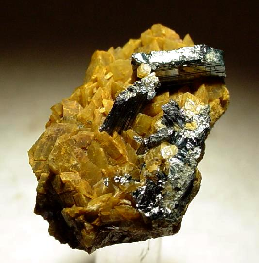 Chalcostibite, Siderite Locality: St Pons, Val d'Ubaye, Barcelonette Mts, France Size: thumbnail, 2.6 x 1.7 x 1 cm Chalcostibite on Siderite A superb thumbnail of this rare species, from THE major find in the mid-1980s at this classic locality. The main crystal, perched nicely on matrix, is 1 cm 2.6 x 1.7 x 1 cm